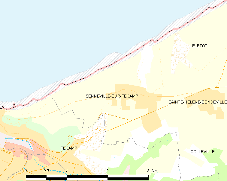 Map of French municipality Senneville-sur-Fécamp